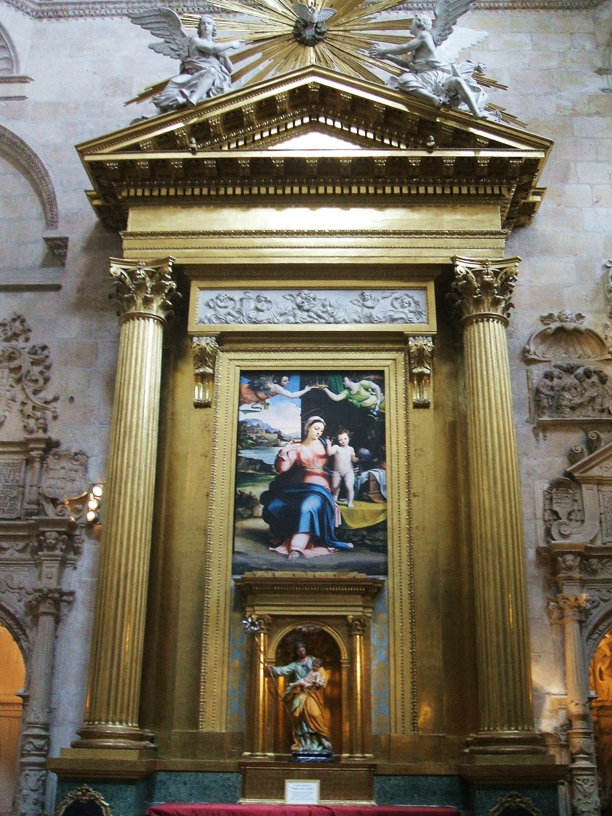 Retablo neoclásico de la Capilla de la Presentación de la Catedral de Burgos, Castilla y León, España